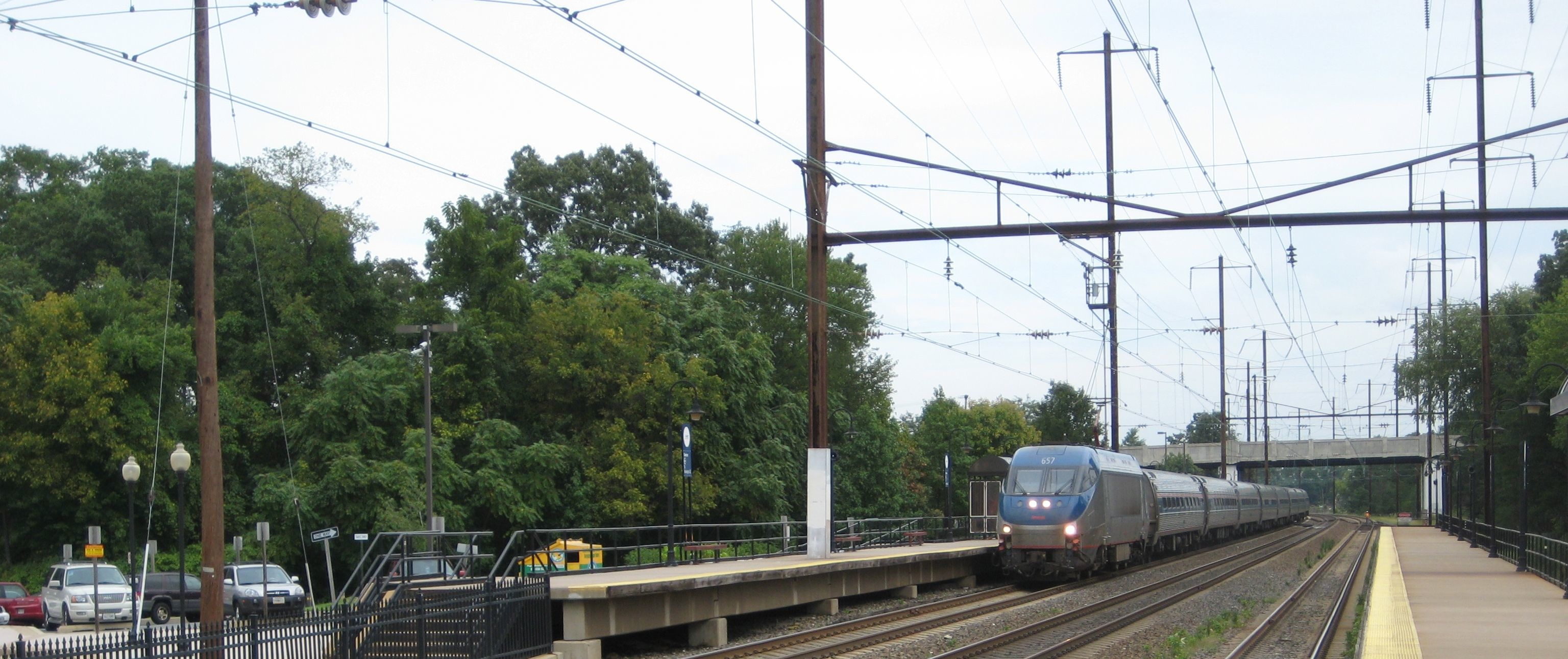 An Amtrak HHP-8 pulling a Northeast Regional consist under 25 Hz traction wire at the Odenton, Maryland station.